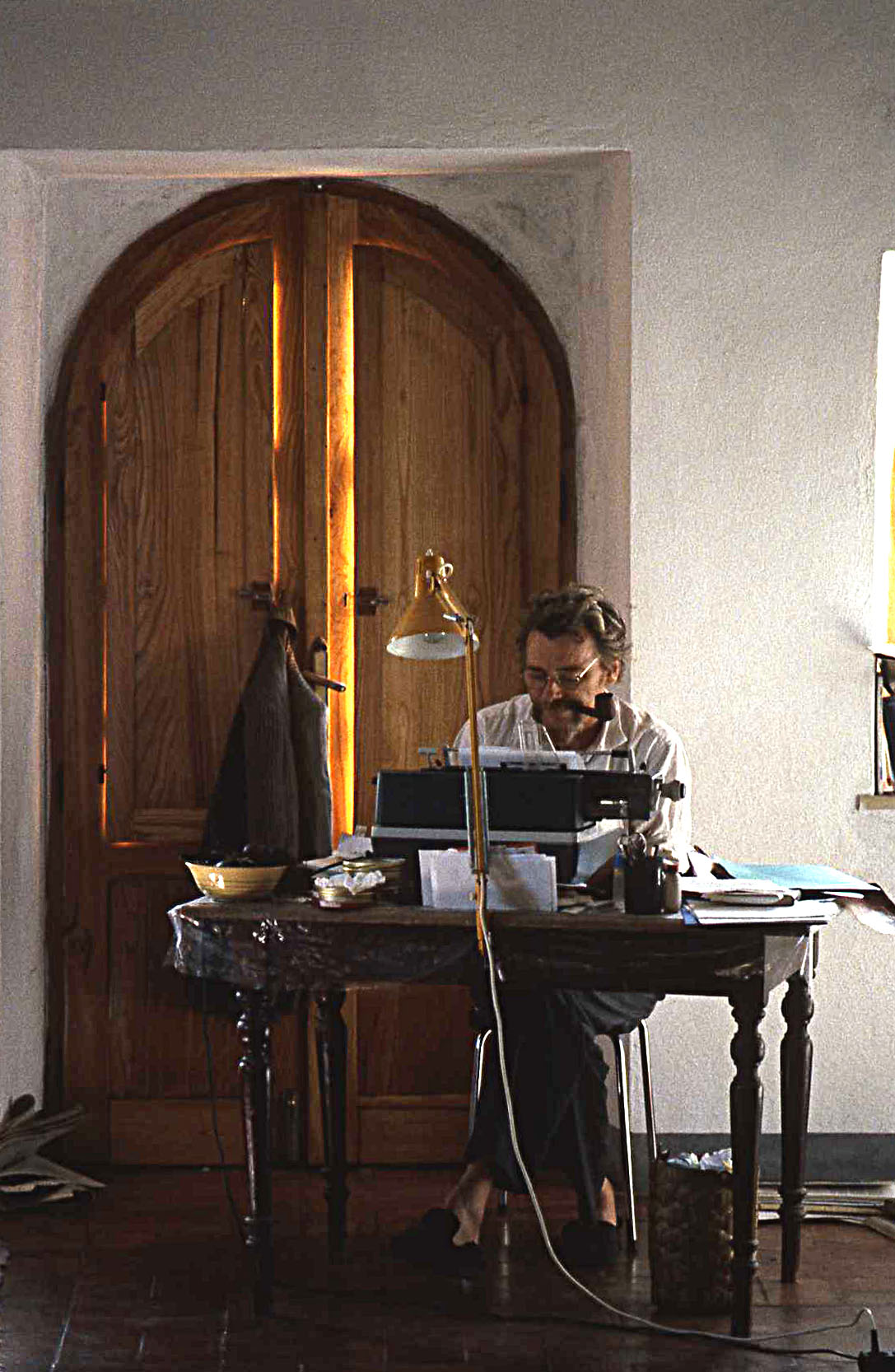 Hans-Jürgen Fröhlich